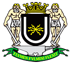 The Coat of Arms of Volta Redonda.